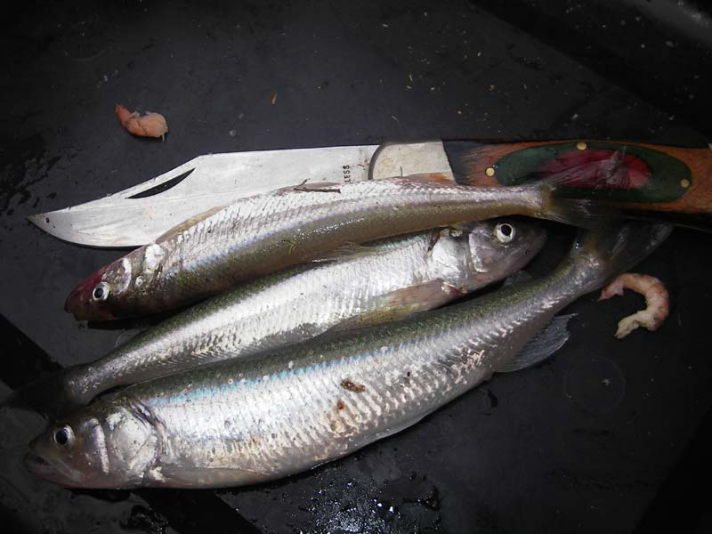 European Smelt freshly caught